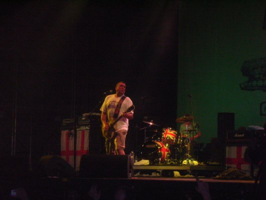 Steve Jones from Sex Pistols in concert in Turin, Italy.